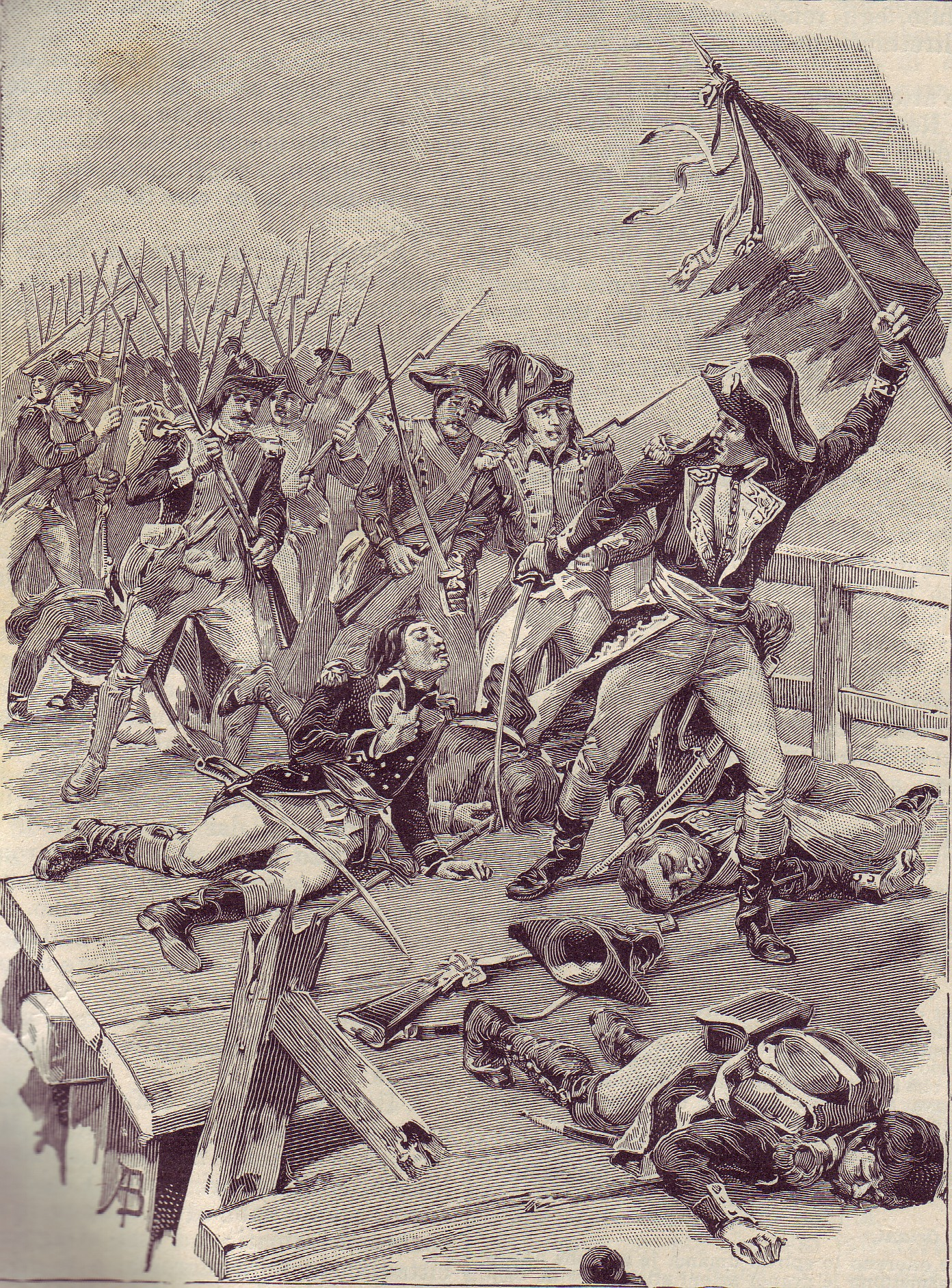 Battle of Arcole